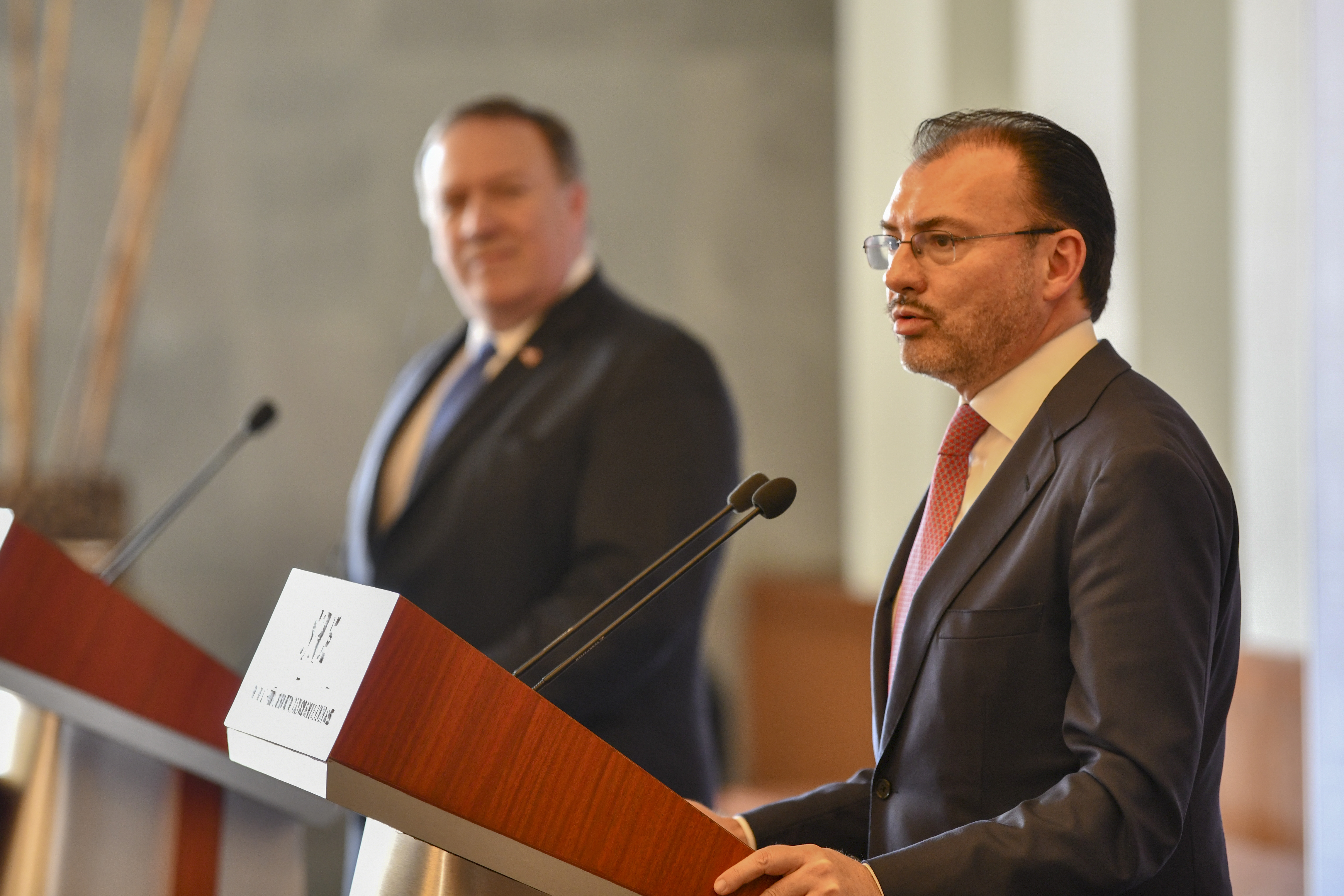 Mexican Foreign Secretary Luis Videgaray Caso and U.S. Secretary of State Michael R. Pompeo speak at a joint press availability in Mexico City, Mexico on July 13, 2018. [State Department photo/ Public Domain]